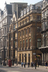 Piccadilly, London Heading towards West past Green park.